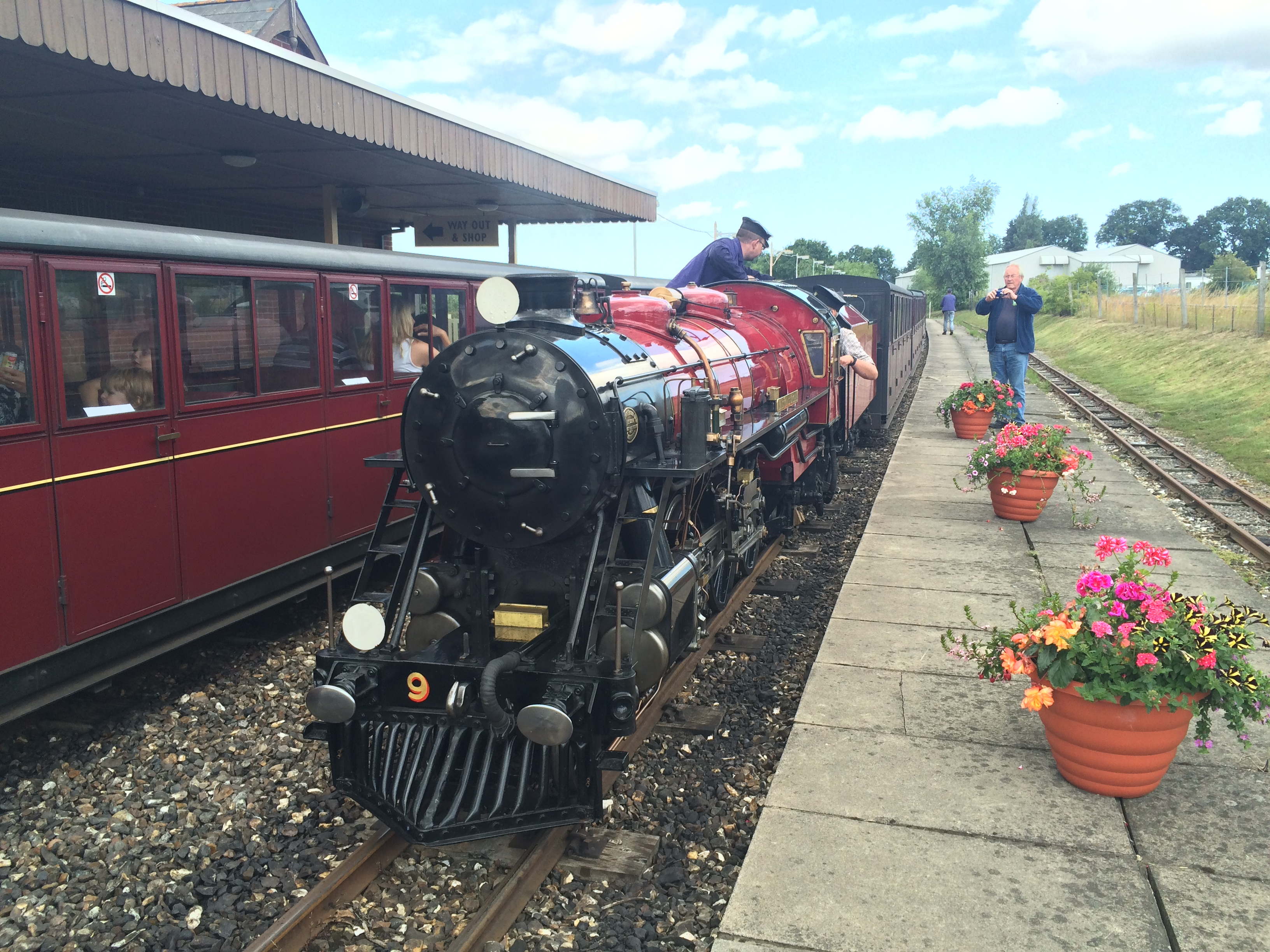 Wroxham railway station, Norfolk, with trains on both platforms 1 and 2.